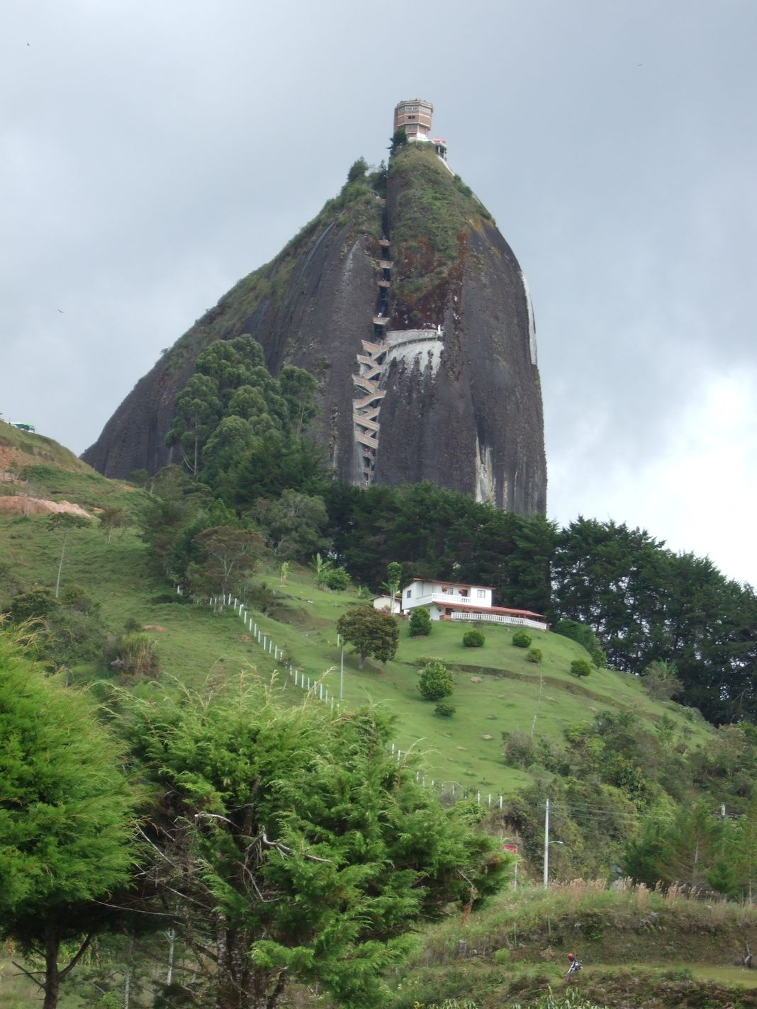 Picture of La Piedra in Guatape Colombia South America. Taken with fuji f20 digital camera.